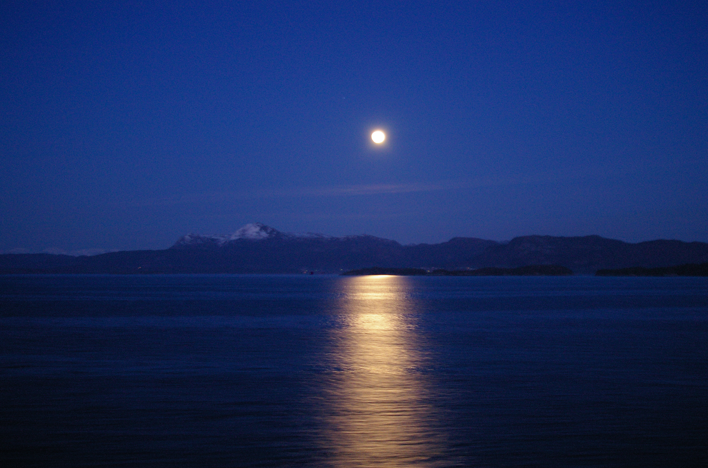 Bjørnafjorden in moonlight, seen from the ferry between Halhjem and Sandvikvåg, Norway. Tysnessåto is the mountain top to the left of the moon.